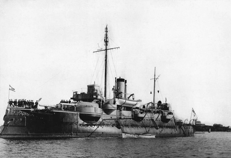 SMS Beowulf was one of a class of eight armoured coastal defence ships (Küstenpanzerschiffe) built for the German Imperial Navy between 1889 and 1895. The others in the class were SMS Siegfried, SMS Frithjof, SMS Heimdall, SMS Hildebrand, SMS Hagen, SMS Odin, and SMS Ägir.